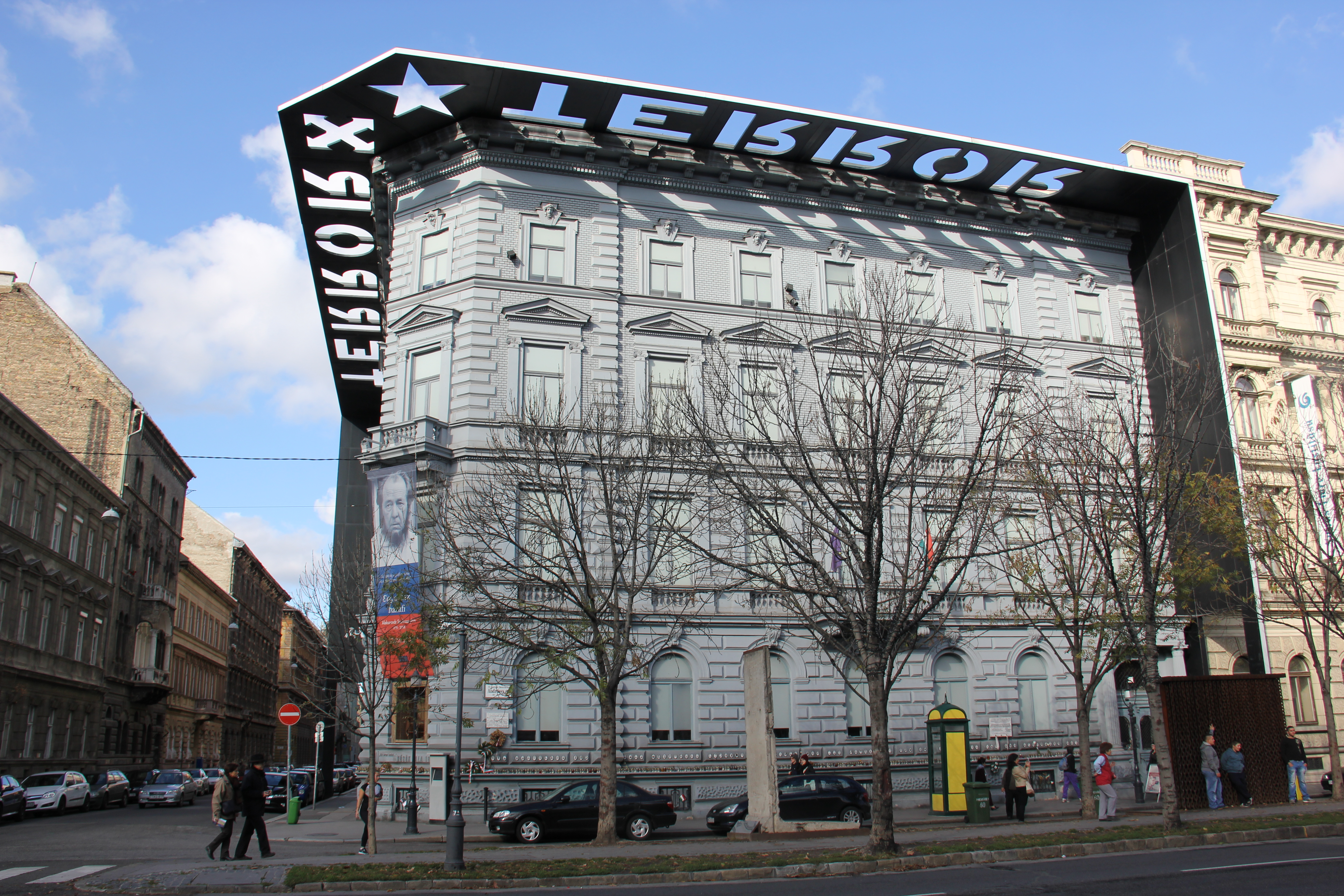 House of Terror